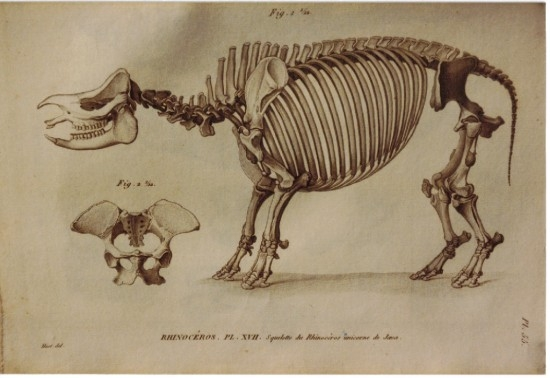 Skeleton of the "Rhinoceros unicorne de Java" in the Paris Museum of Natural History. From G. Cuvier, Recherches sur les ossemens fossiles, Atlas, pl. 17.